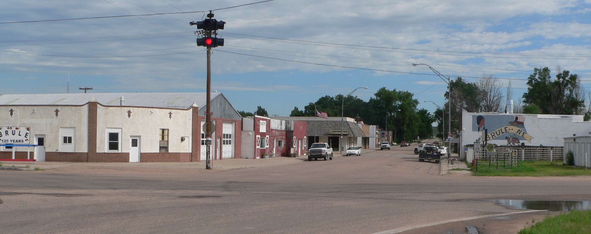 Brule, Nebraska: seen from south side of U.S. Highway 30.